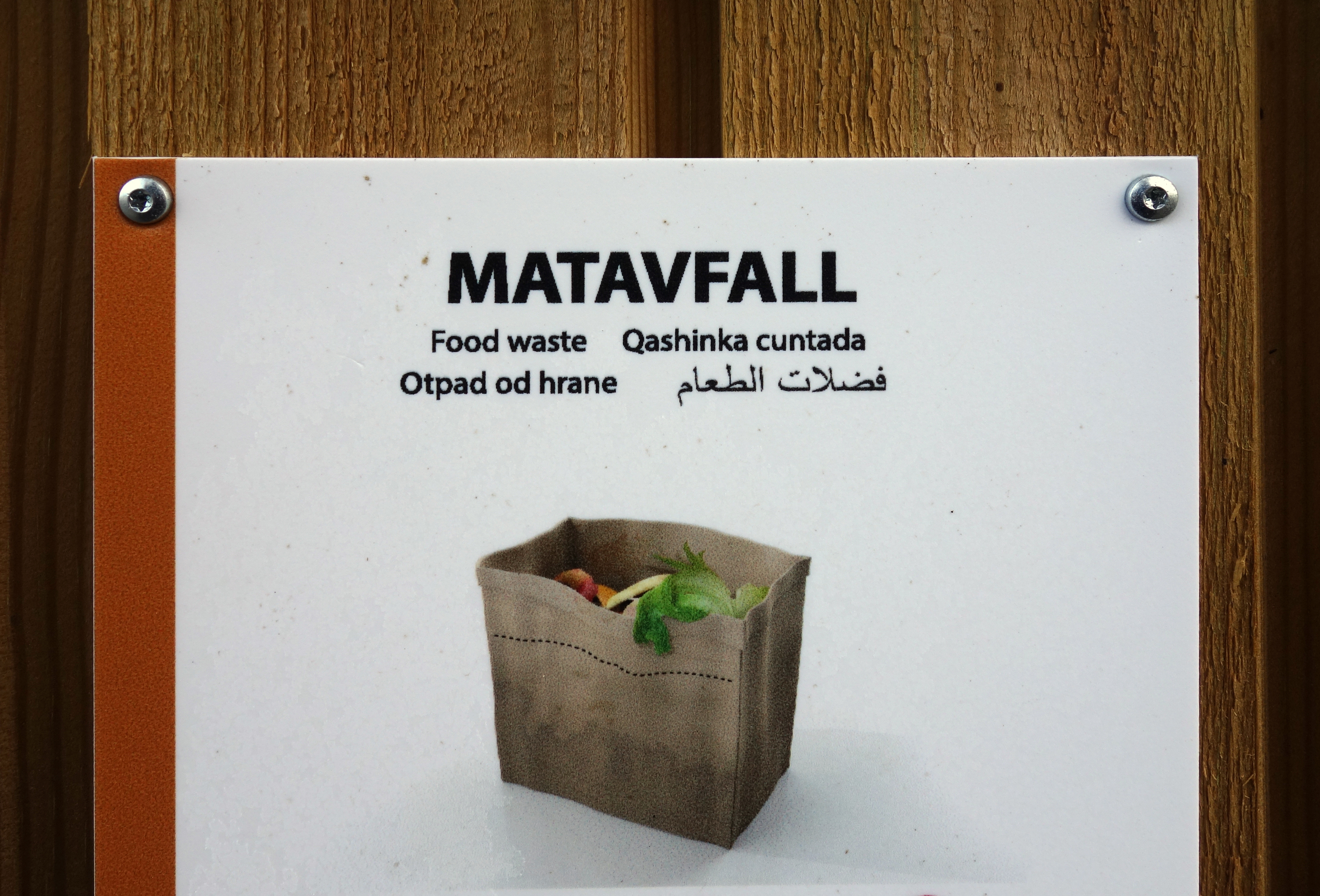 Food waste sign in five languages on a sorted waste containers in Lysekil Municipality, Sweden.